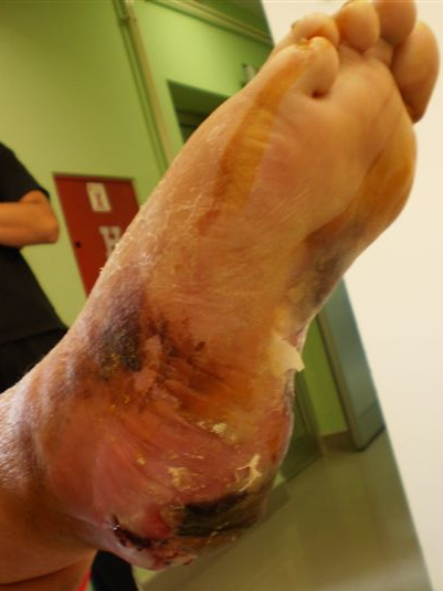 Diabetic foot ulceration